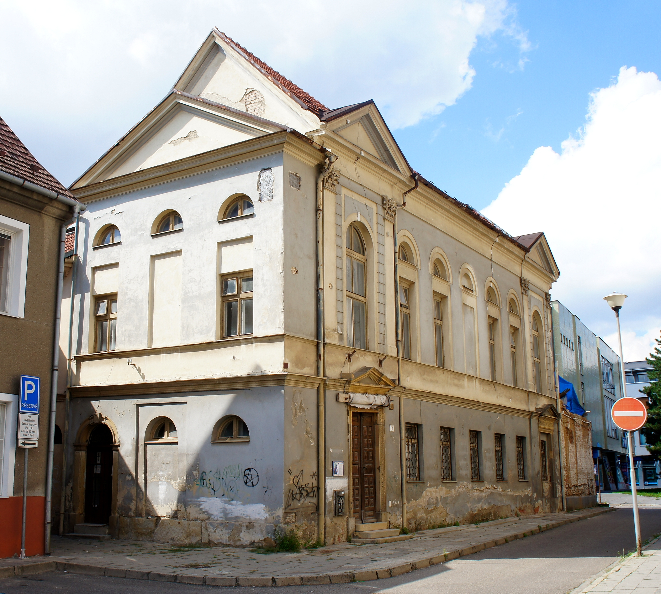 The Old synagogue in Prostějov, originally a Beth midrash (Olomouc Region, Czechia).